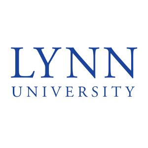 Lynn official logo